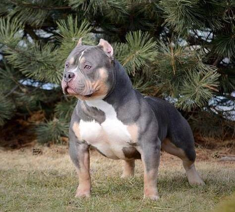 Champion Lucky Luciano